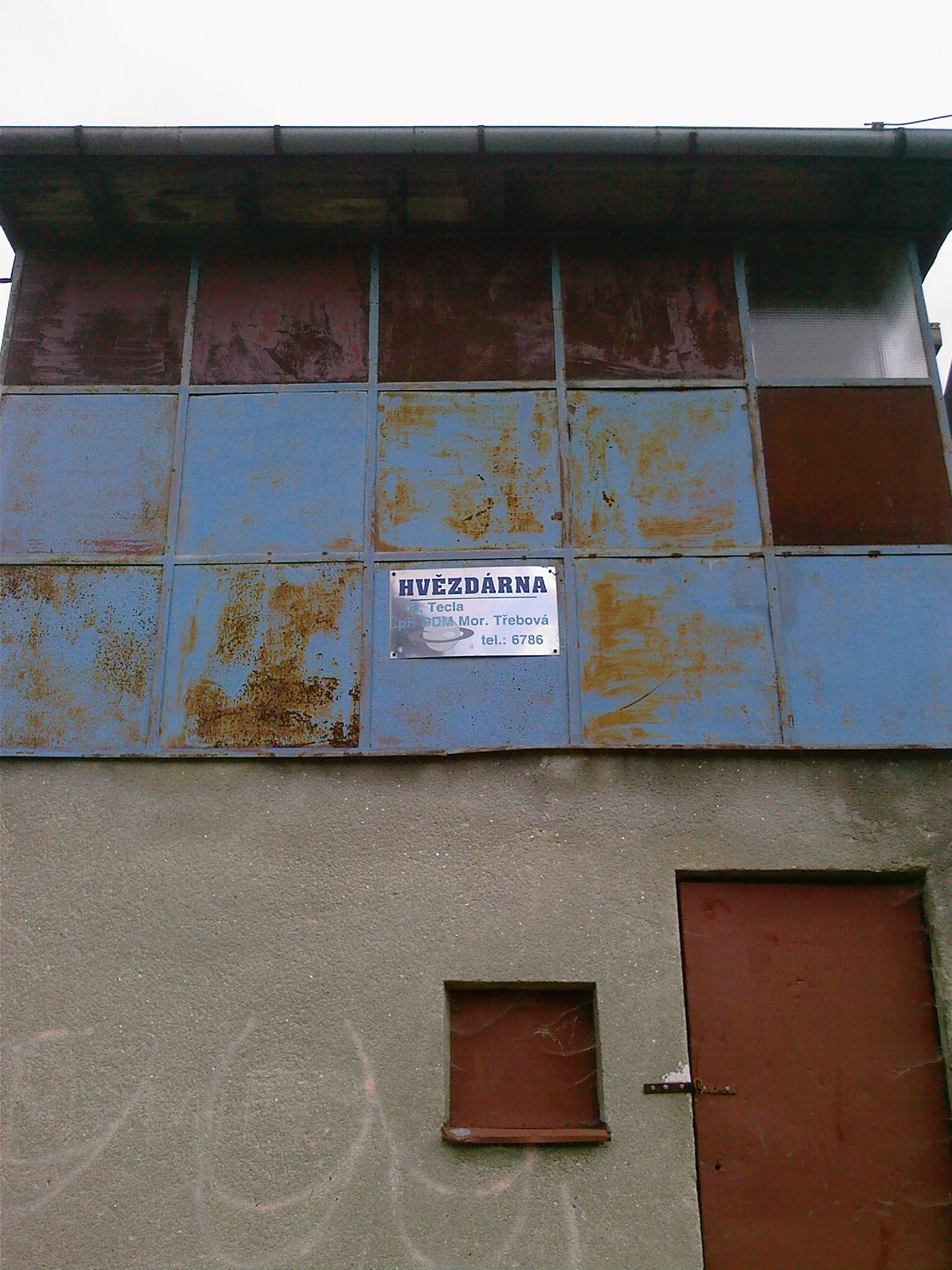 North side of the building, covered staircase to the observation.